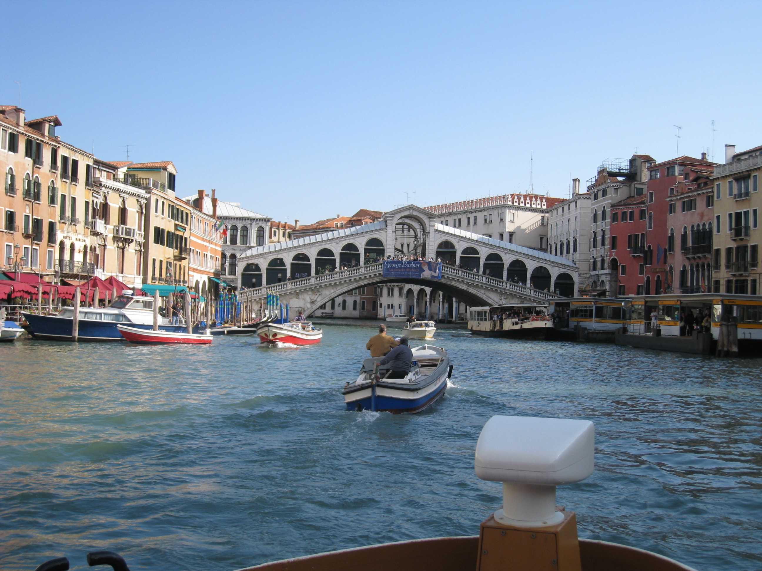 View of Rialto Bridge from Venice Waterbus.